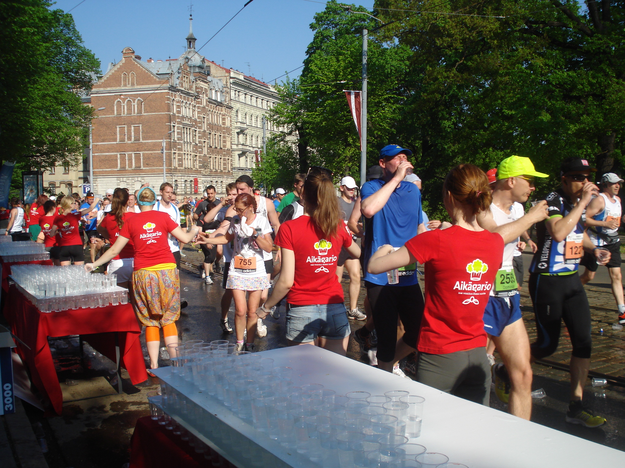 The Riga Marathon 2013